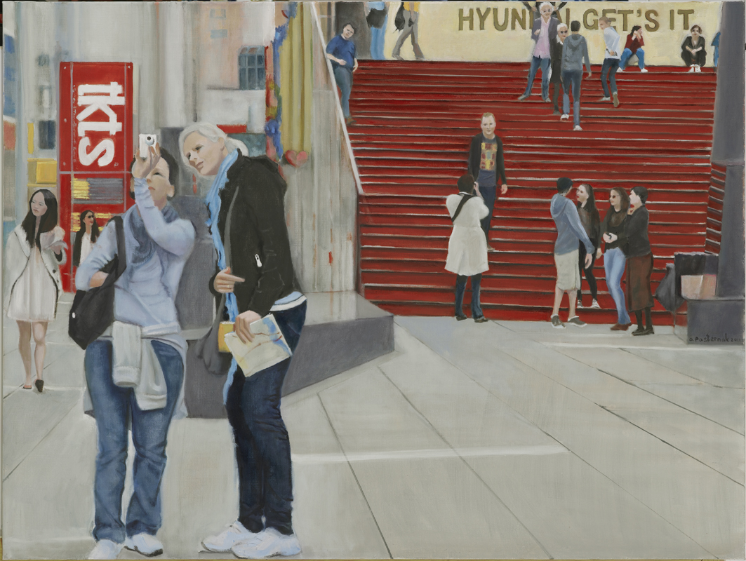 A87 Anna Pasternak, Times Square 1, 2011, oil on linen canvas, 92 x 123 cm From The New York City Paintings series, started at 2010